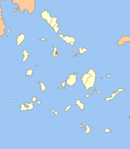 Locator map of Ermoupoli municipality (Δήμος Ερμουπόλεως) in Cyclades prefecture (Νομός Κυκλάδων) in Greece.